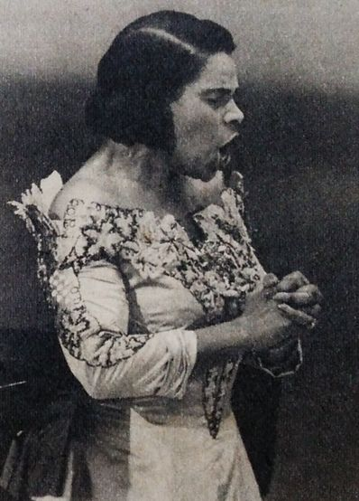 Marian Anderson, when she visited Japan in 1953.